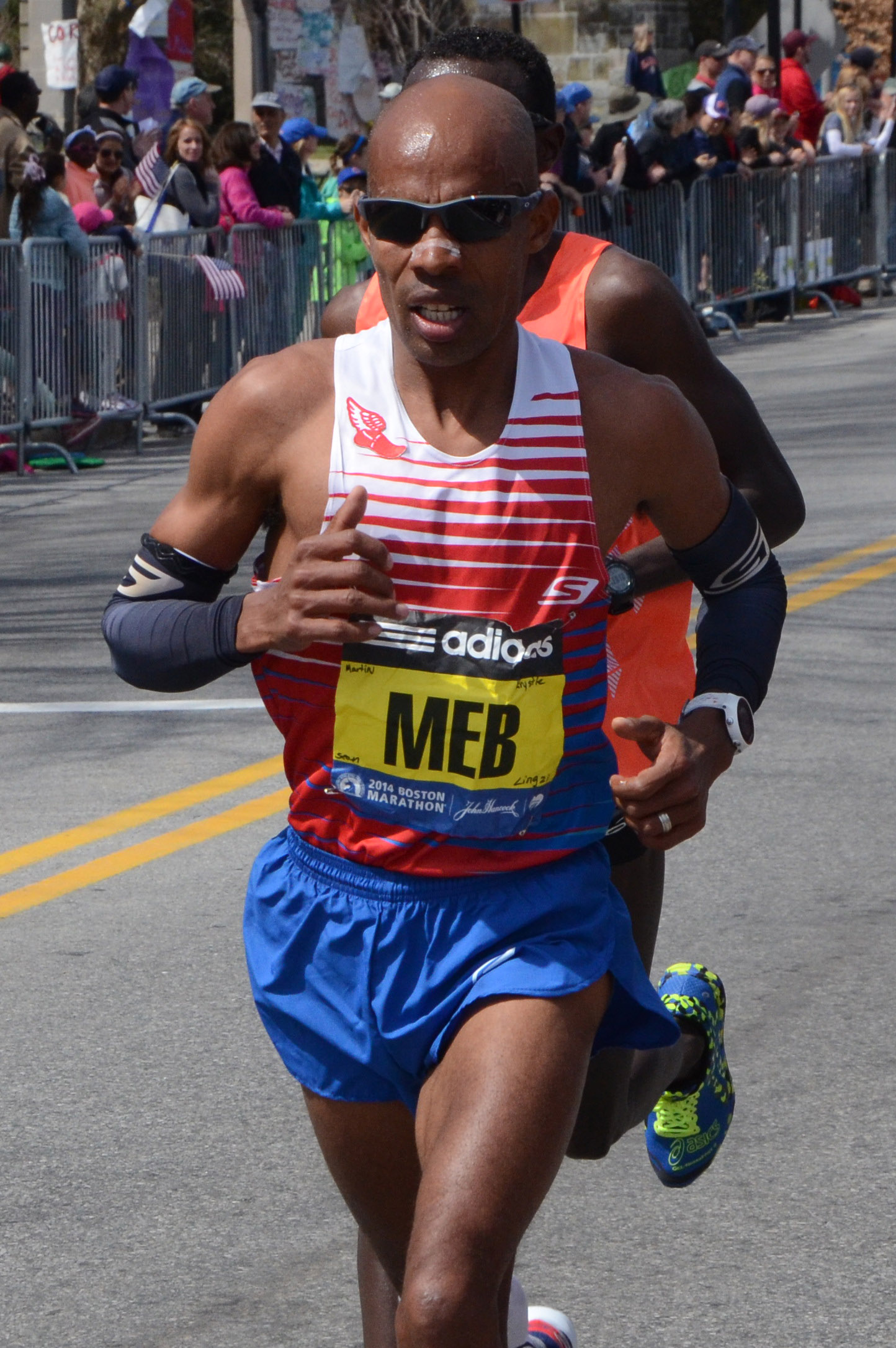 Meb Keflezighi in 2014 Boston Marathon (which he won), near halfway point in Wellesley